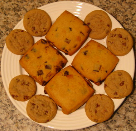 A dish of homemade cookies.